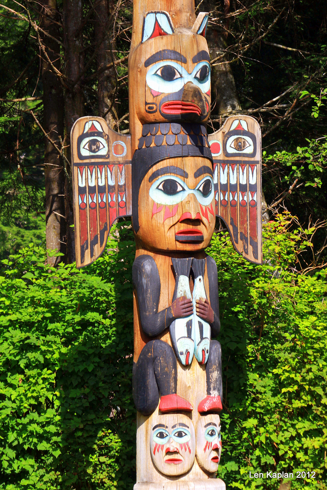 Totem Bight State Historic Site